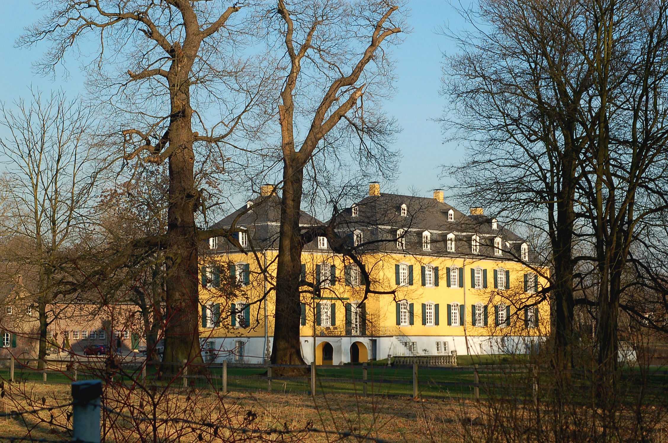 Haus Hall, Hückelhoven-Ratheim, Germany